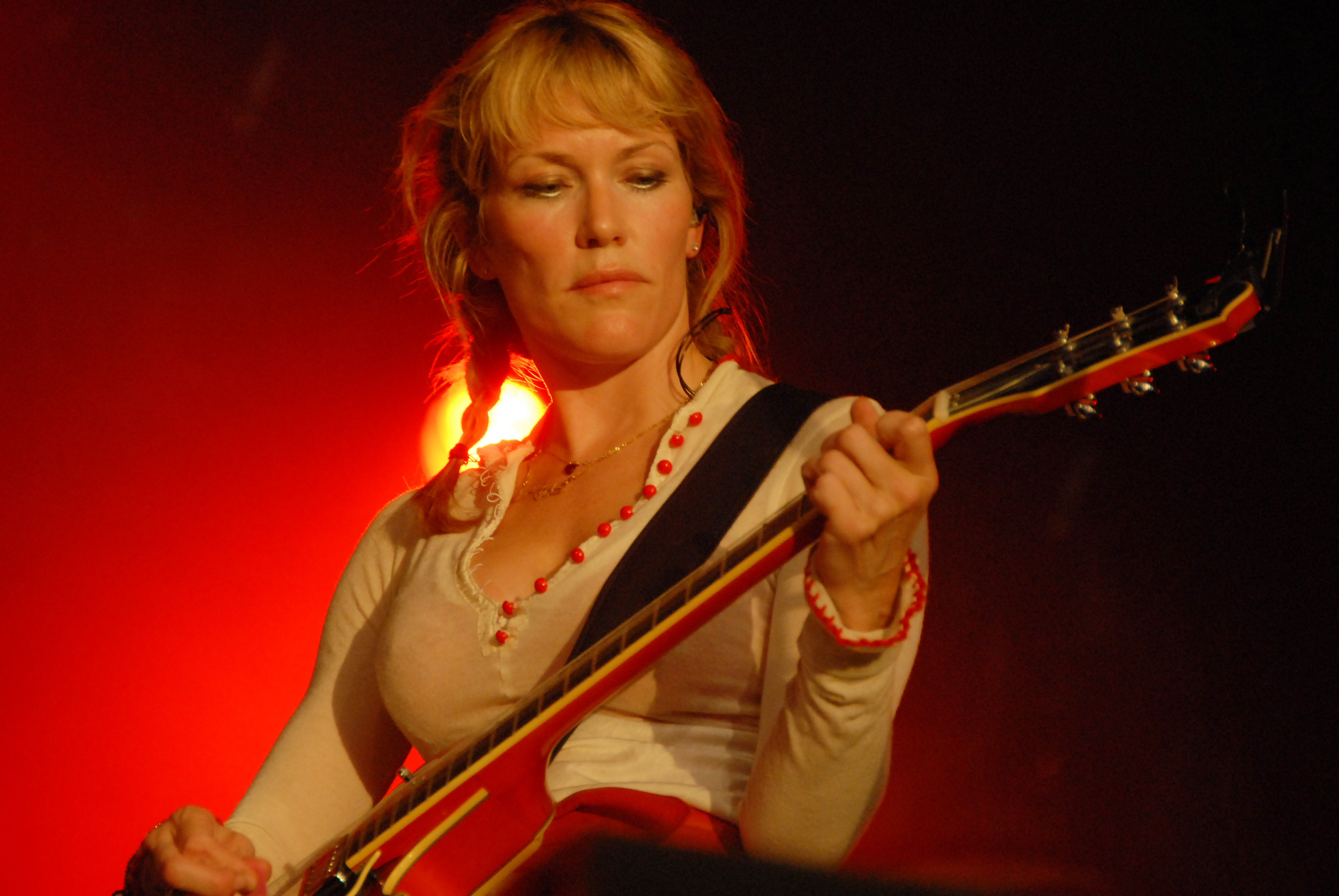 Cerys Matthews at Cambridge Festival 2006.jpg